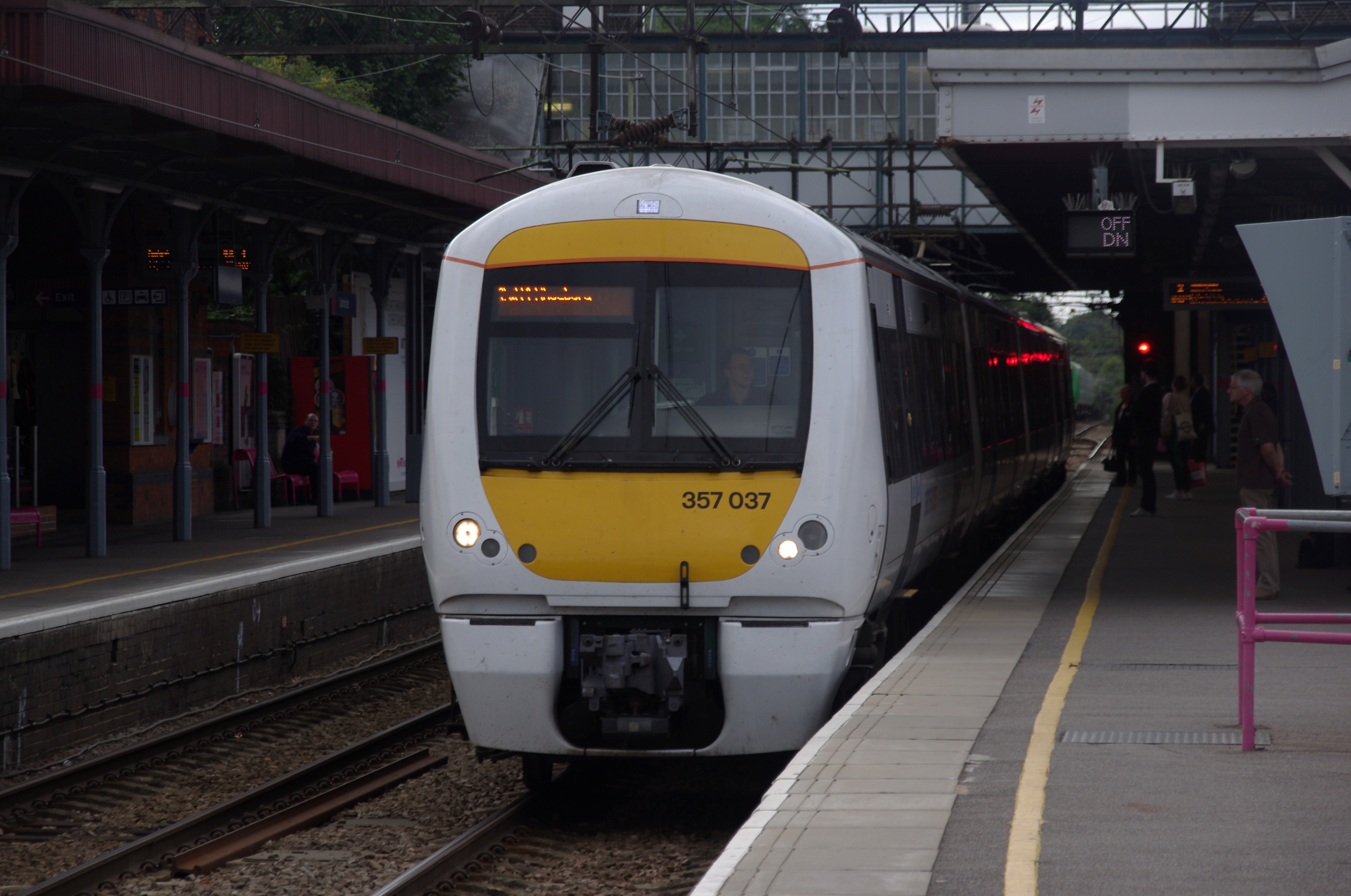 c2c Electrostar EMU 357037 arrives at Upminster with a service to Shoeburyness.